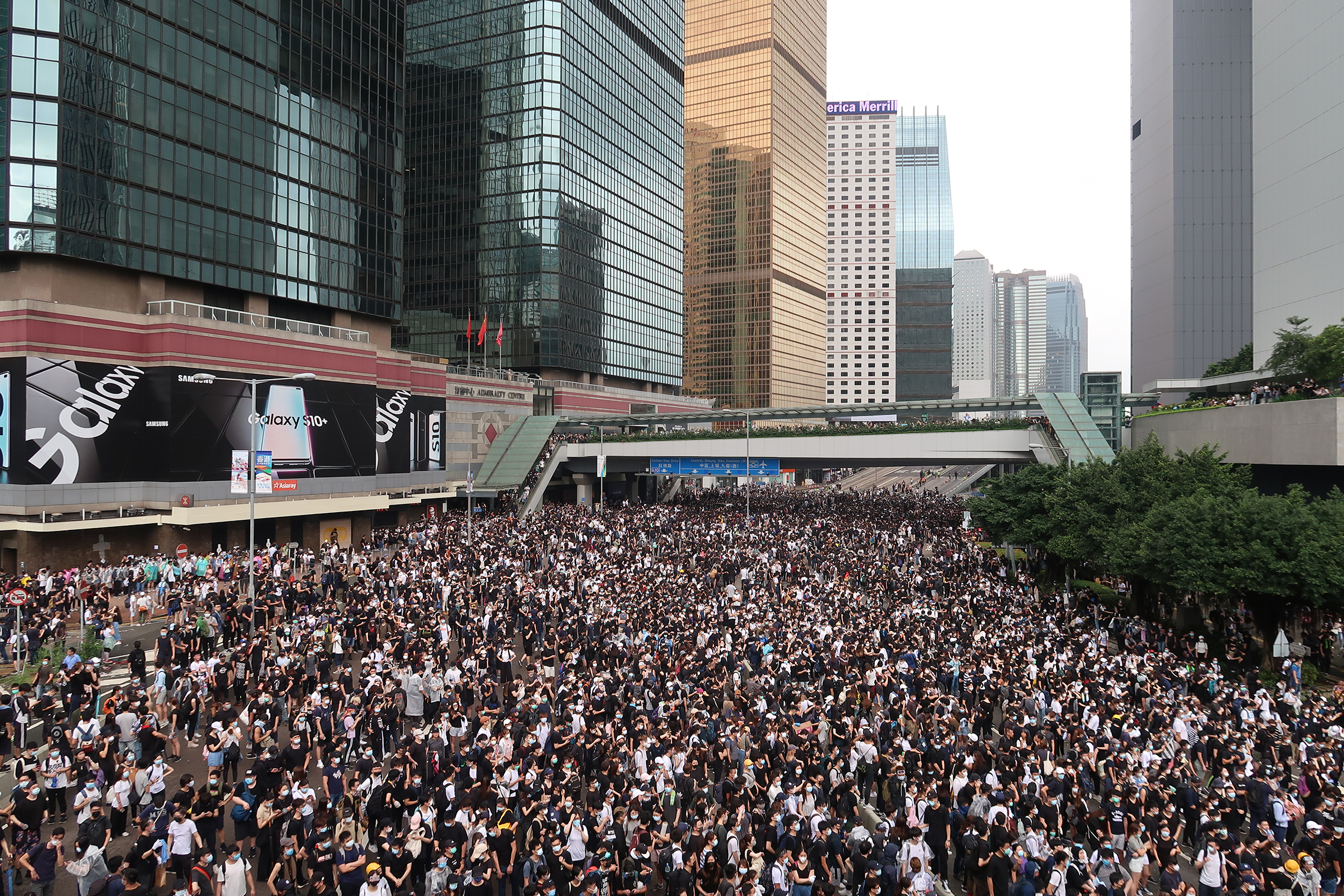 Protester occupy Harcourt Road